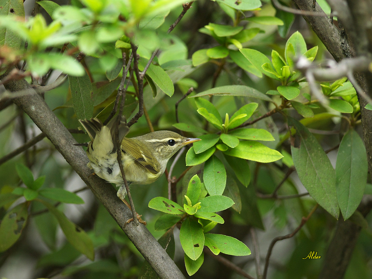 winter visitor, taken at C.K.S. Memorial Hall, Taipei.